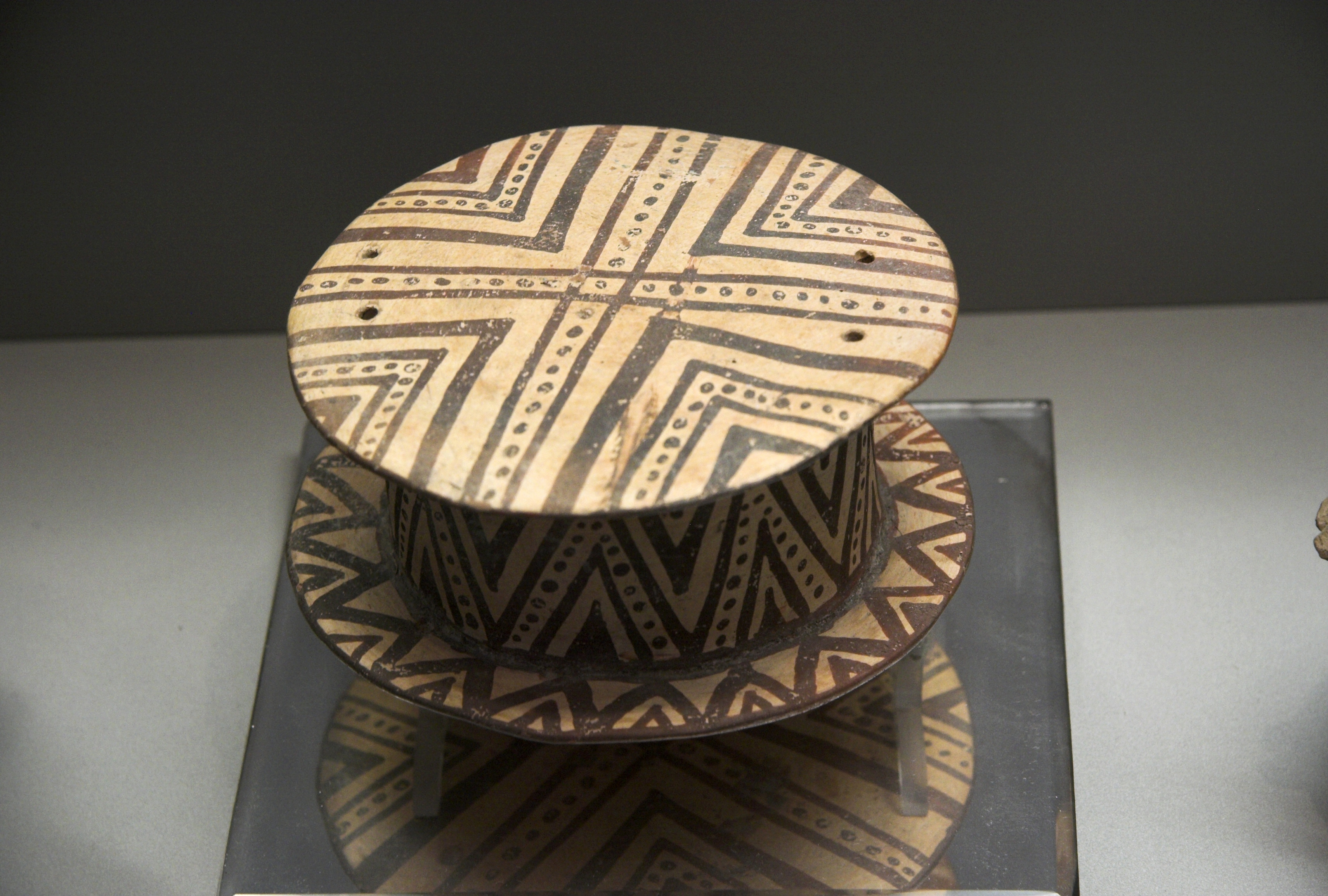 Pyxis (Dose), geometrically painted pottery, early Bronze Age, EC II. National Archaeological Museum of Athens.